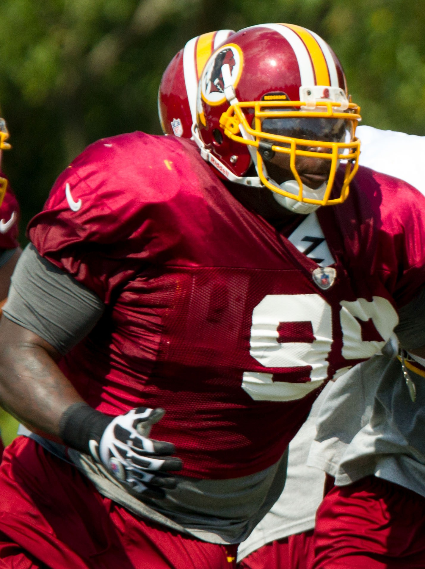 Washington Redskins defensive end, Jarvis Jenkins, at training camp in 2012.